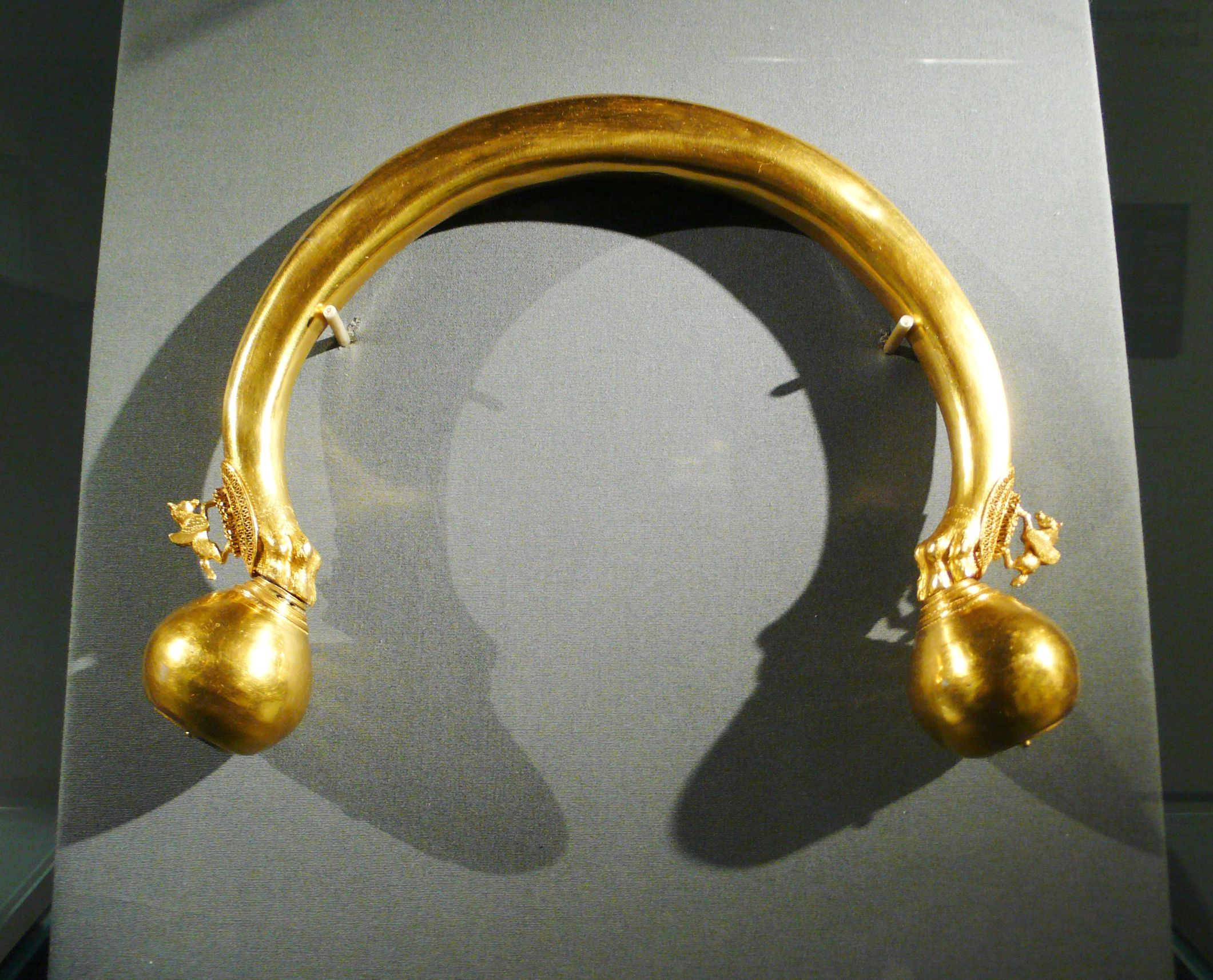 Vix, France. This voluminous piece of jewellery, found in the grave of a powerful woman, is made of 40 individual parts. The two spheres at the extremities are held by lion paws. The two small winged horses are reminiscent of Pegasus from Greek mythology and bear witness to increased contact with the Mediterranean world. Kunst der Kelten, Historisches Museum Bern. Art of the Celts, Historic Museum of Bern.